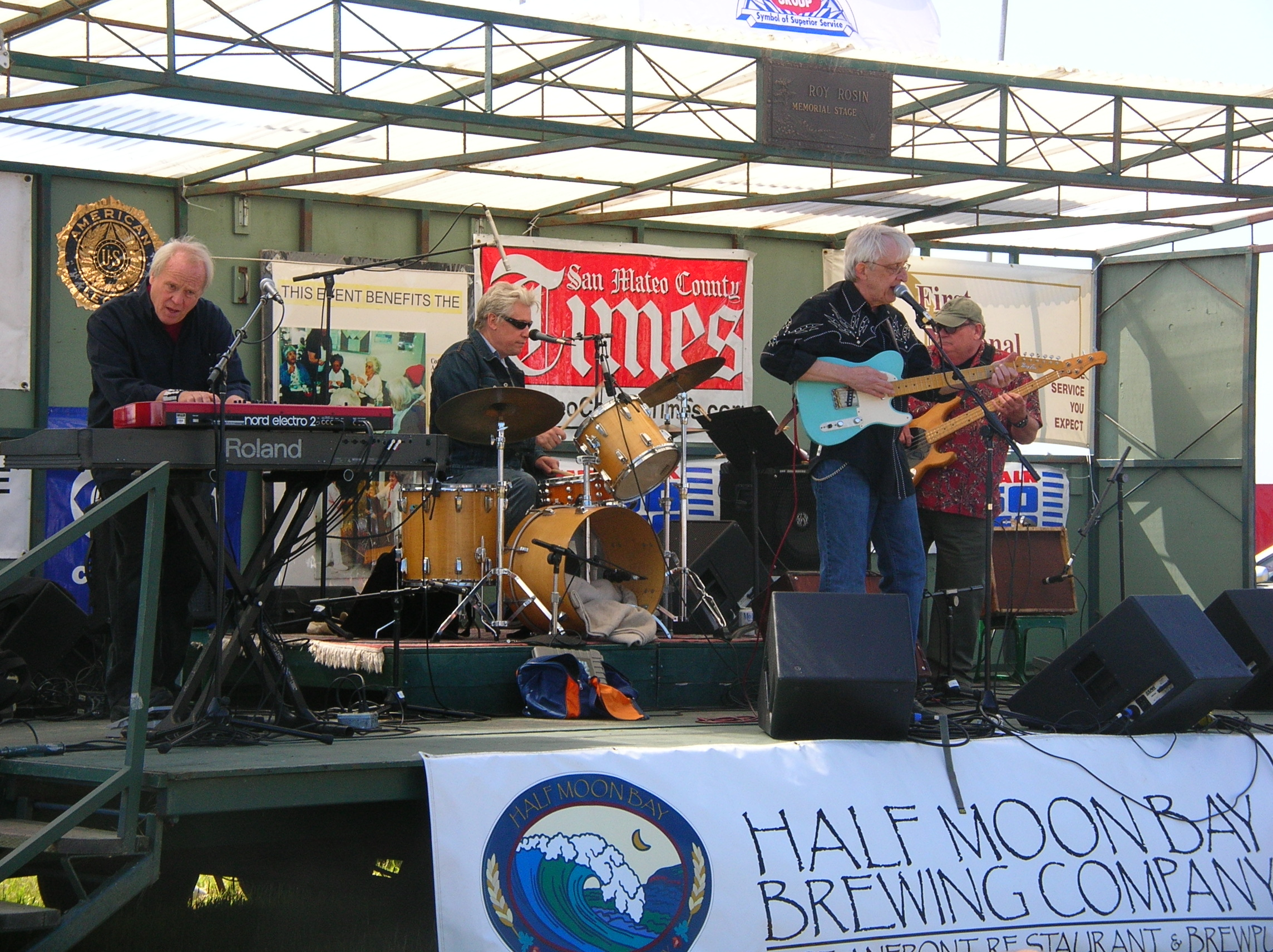 Bill Kirchen performs at the Pacific Coast Dream Machines 2009 vehicle show at the Half Moon Bay Airport in Half Moon Bay, California.